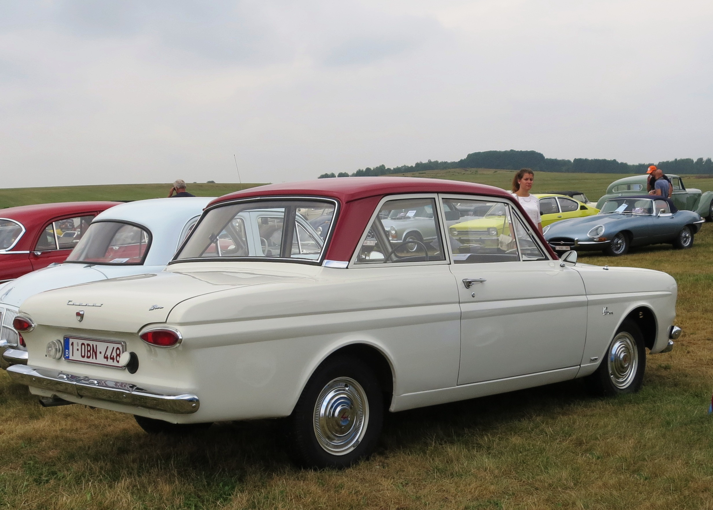 Ford Taunus 12M in Belgium